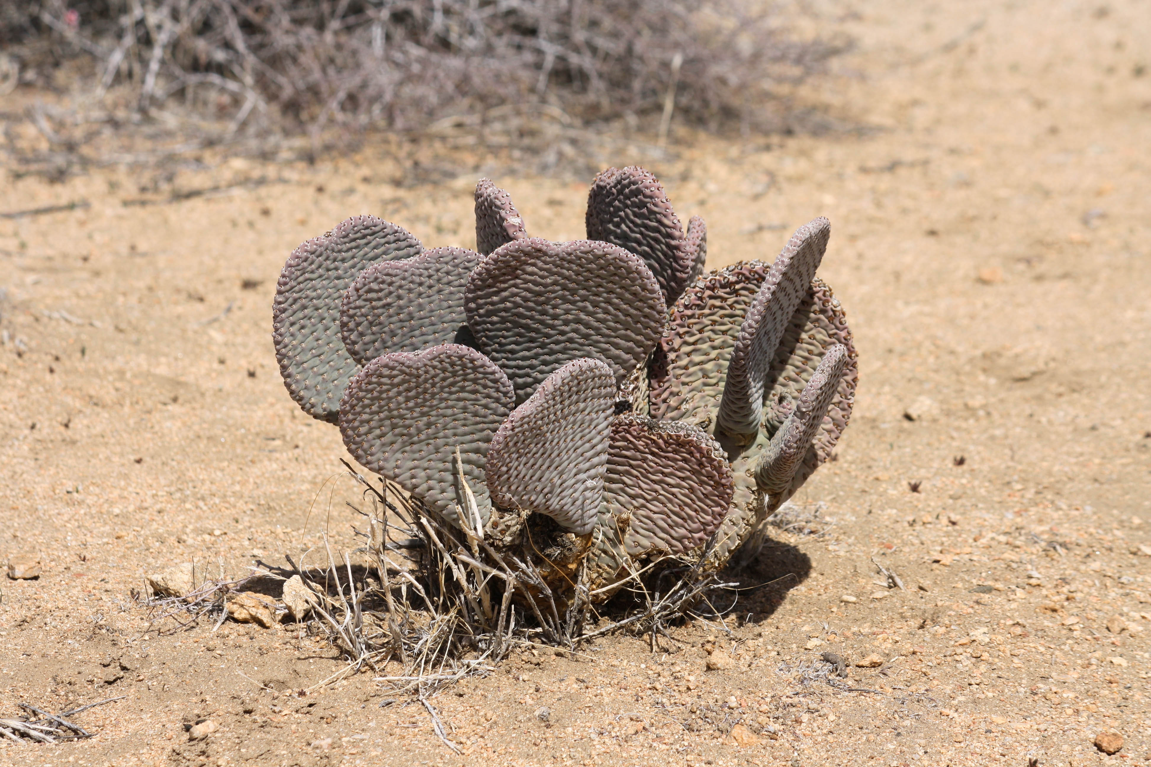 Beavertail Cactus (Opuntia basilaris) in Joshua Tree National Park, California